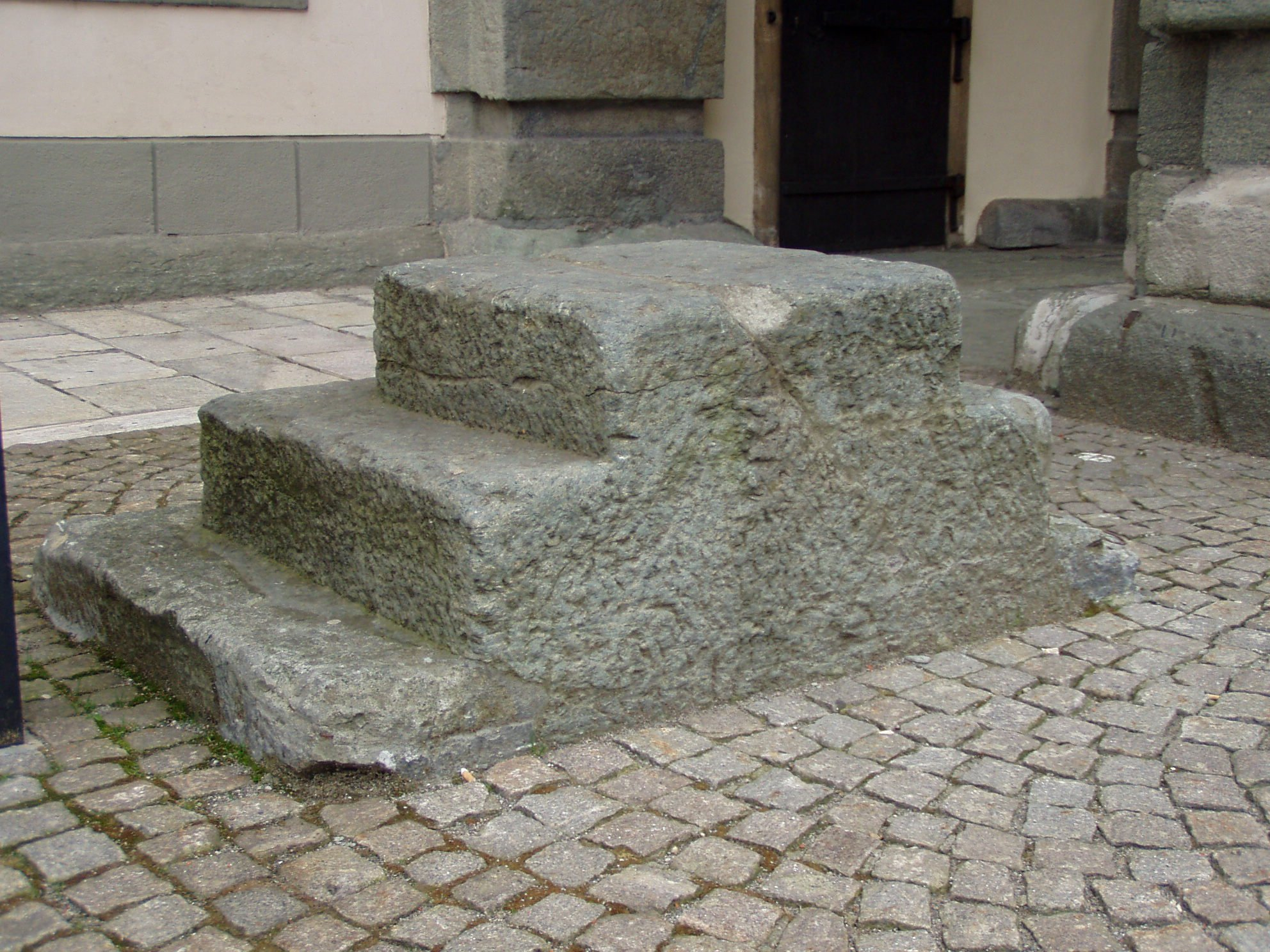 Mounting block in the court of Landhaus, Klagenfurt, Austria.